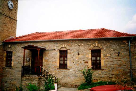 Outside view of the Museum, image from the Folklore Museum, Lehovo, West Macedonia, Greece